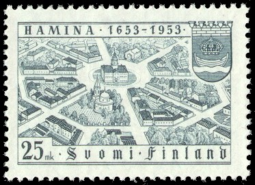 Postage stamp depicting the town plan of Hamina